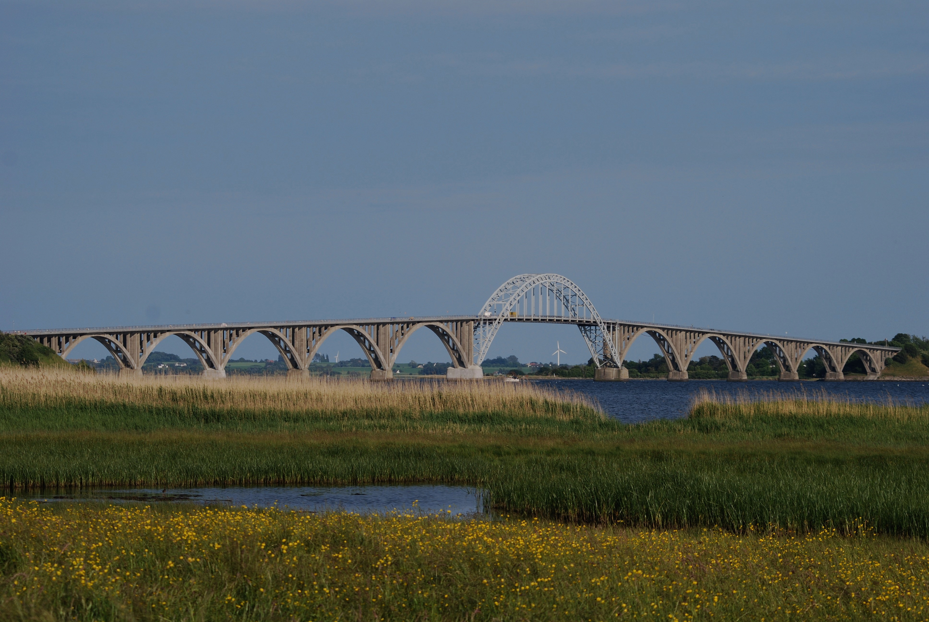 The Queen Alexandrine bridge is a road arch bridge that crosses Ulv Sund between the islands of Zealand and Møn in Denmark.